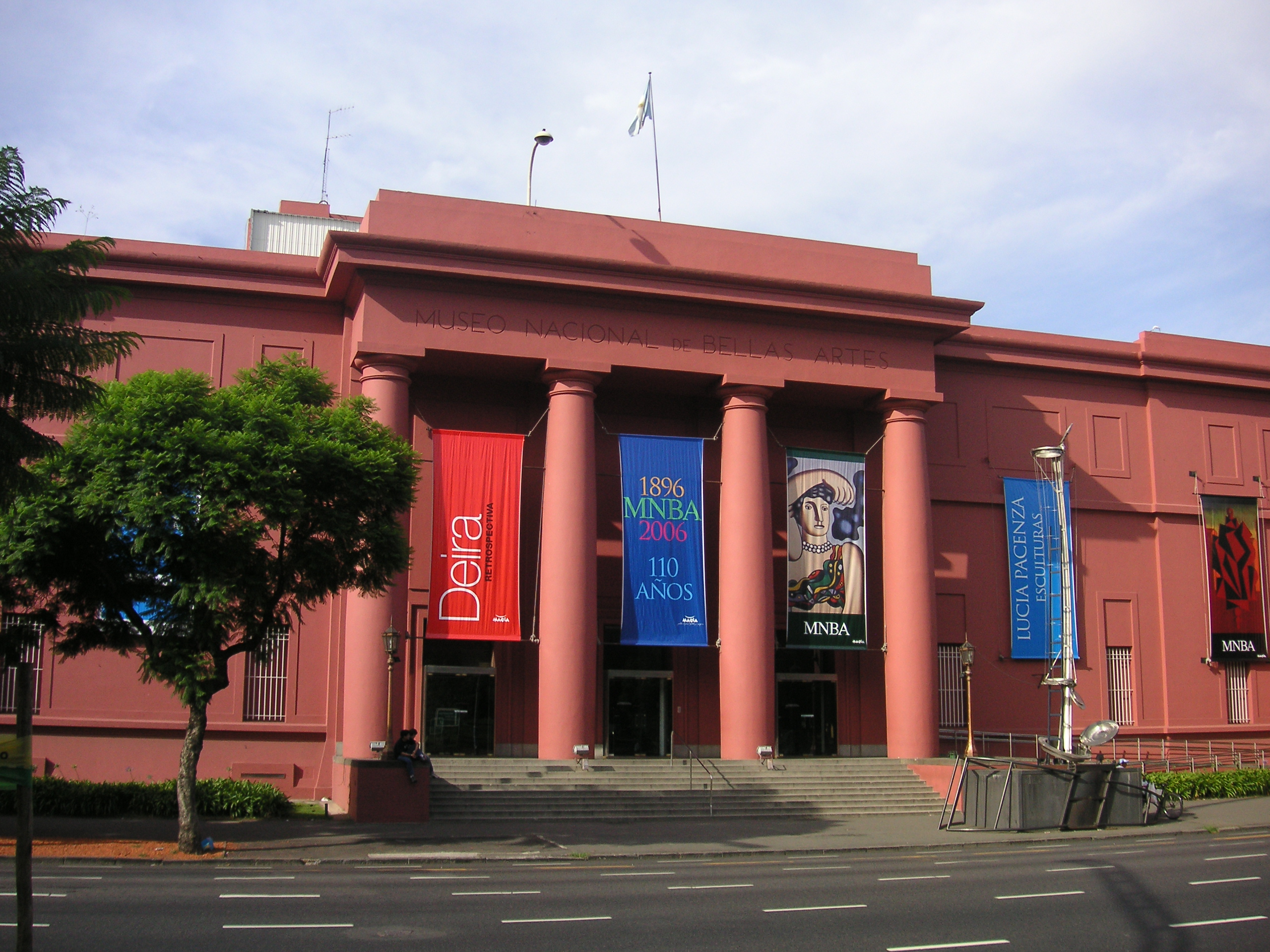 National Museum of Fine Arts, Buenos Aires, Argentina.